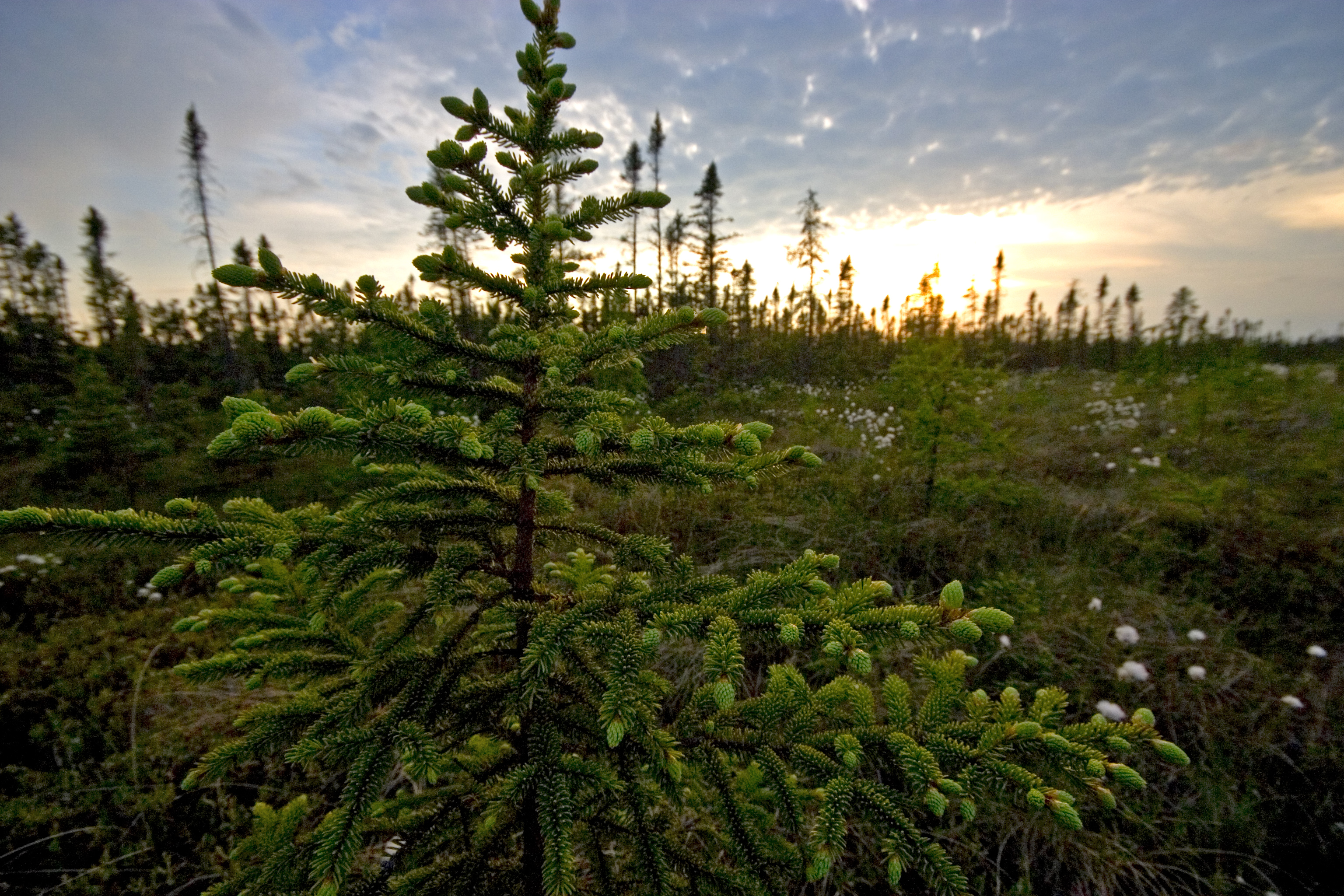 Spruce are stunted by the acidic water which lowers the soils nitrogen concentration. This spruce is about thirty years old.